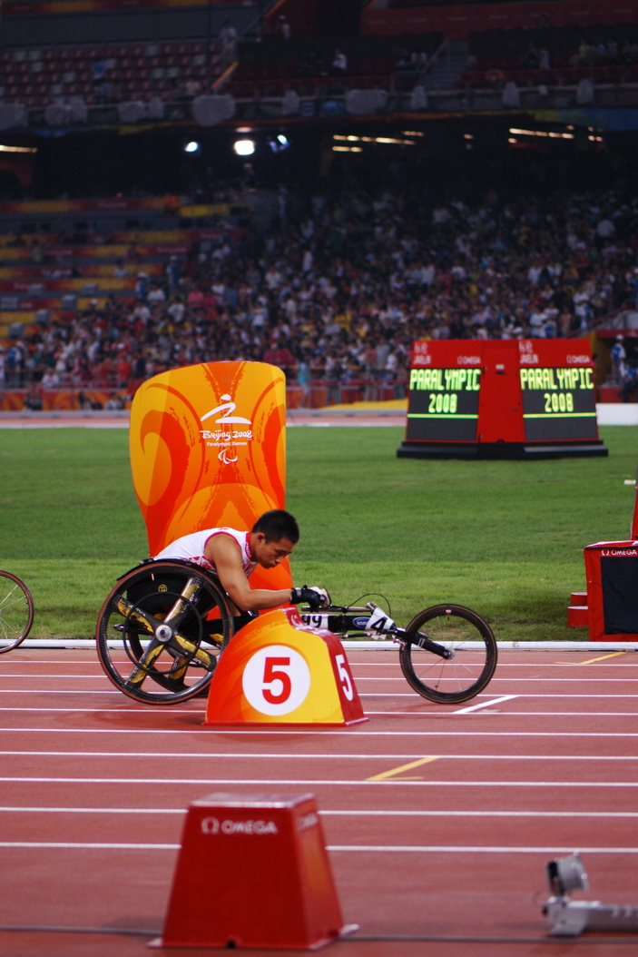 Beijing Paralympic Games 2008: Athletics, Men's 200m class T53: Chinese athlete Shiran Yu won with 26.64 seconds